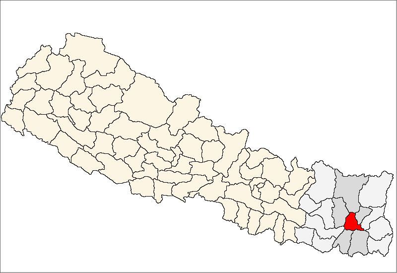 FrenchCarte de localisation dudistrict de Dhankuta(wp-FR),au Népal (wp-FR).EnglishLocation map ofDhankuta District(wp-EN),in Nepal (wp-EN).